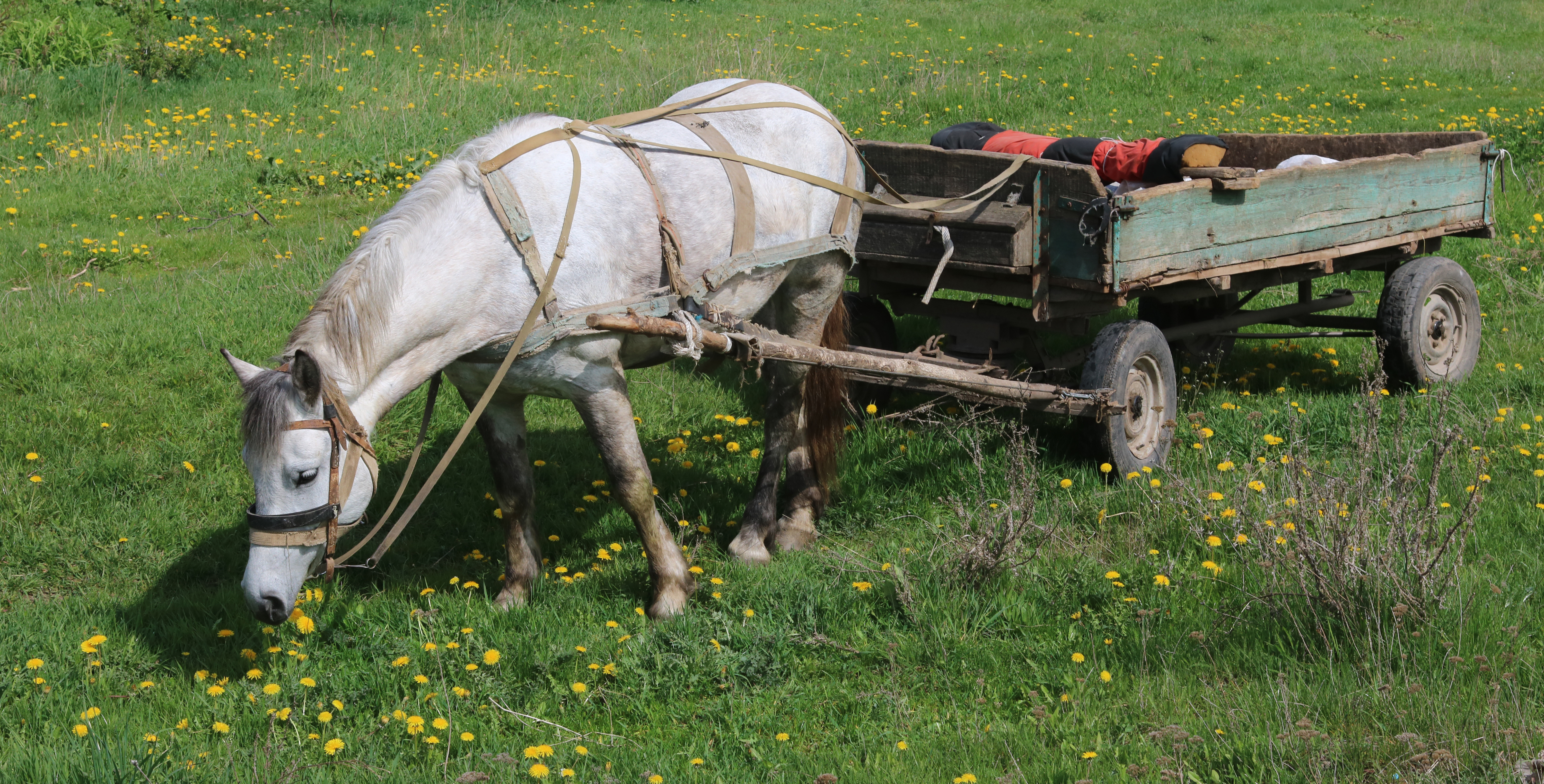 Telega (a cart) with a horse. Ukraine, Sosonka village in Vinnytsia Raion.